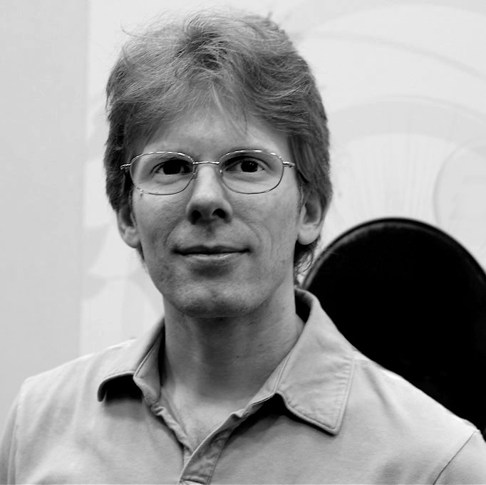 John Carmack, co-founder of id Software, photographed at the 2006 E3